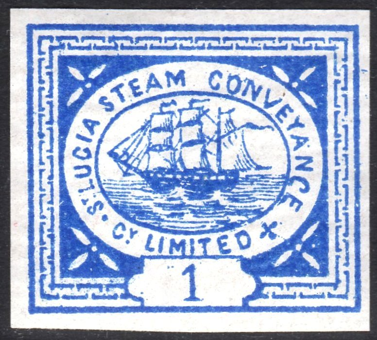 St. Lucia Steam Conveyance Company Limited 1p stamp c. 1872.